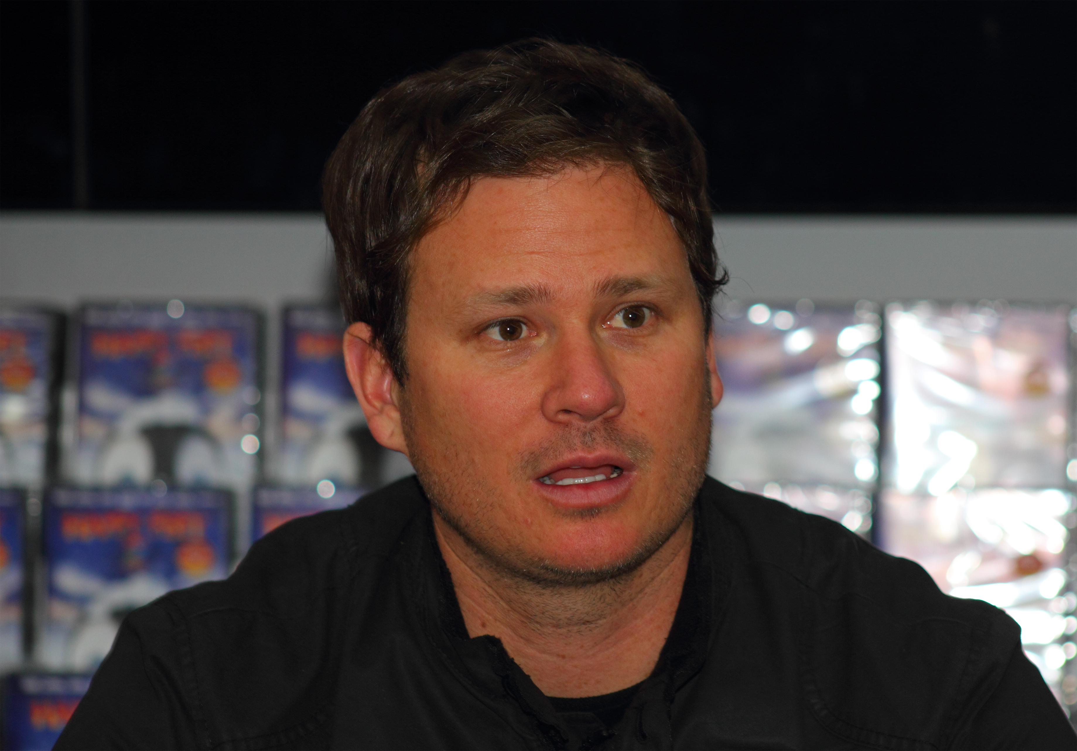 Angels & Airwaves: signing autographs at Saturn Cologne-Hansaring. The picture shows Tom DeLonge.